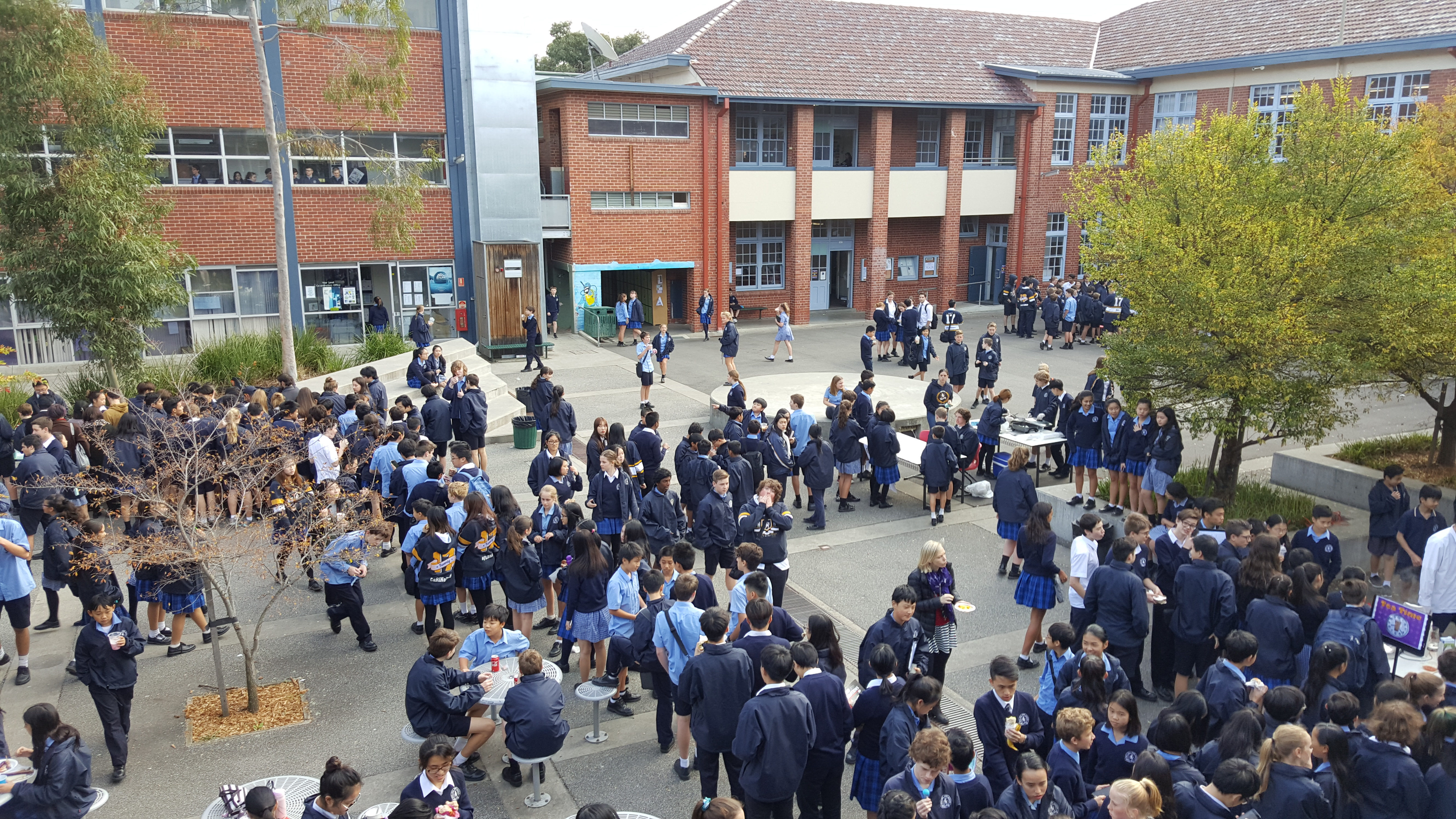 Interior view of Campus at Box Hill High School